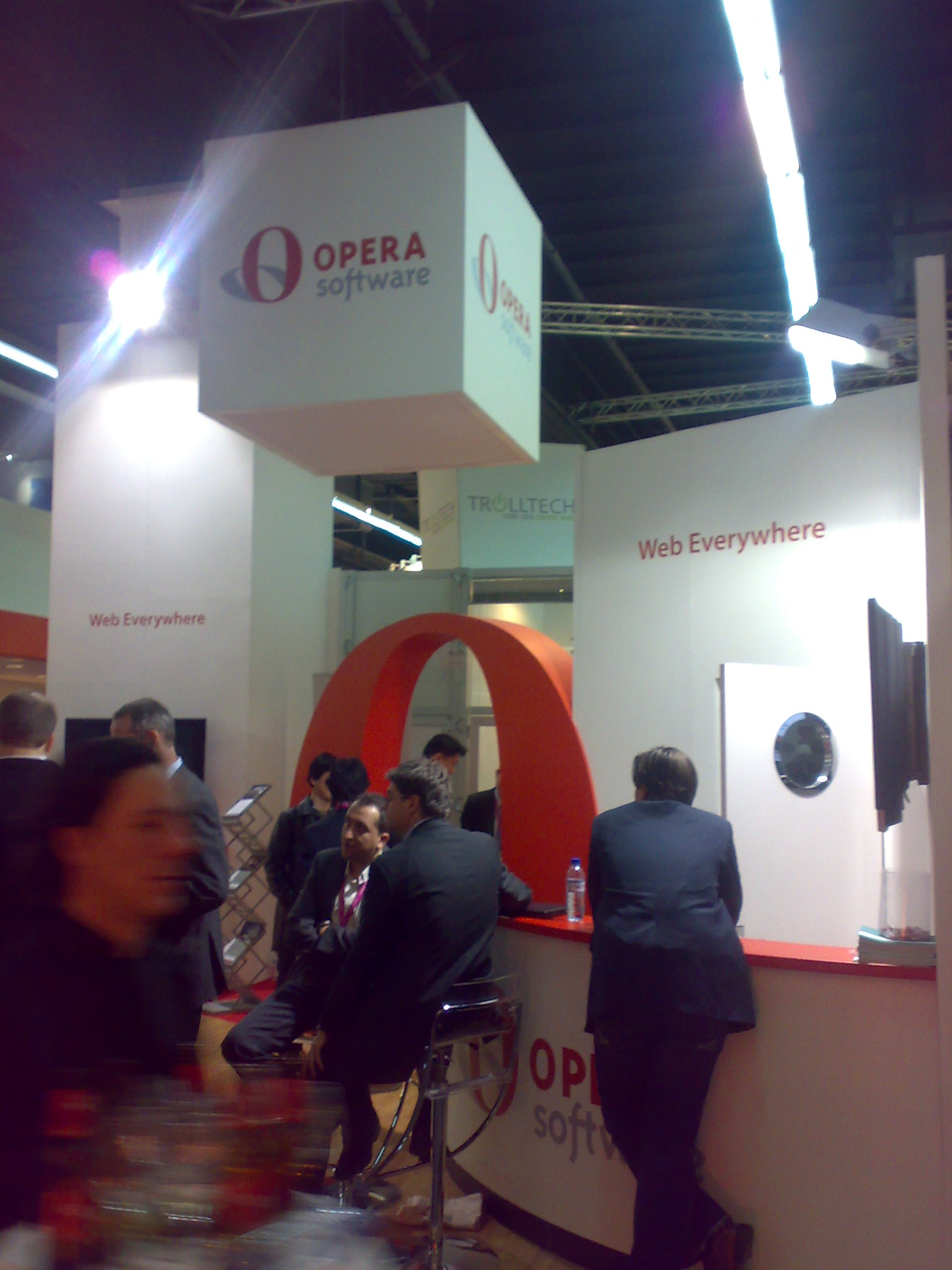 Opera Software stand at GSMA Barcelona 2008